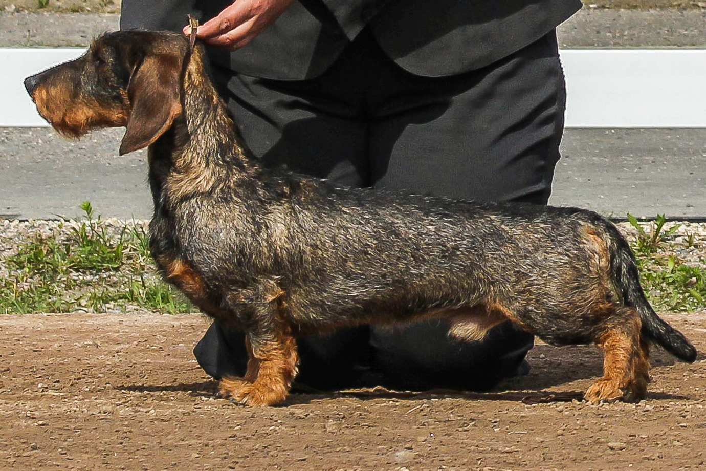 A wirehaired dachshund presented in a dog-show.